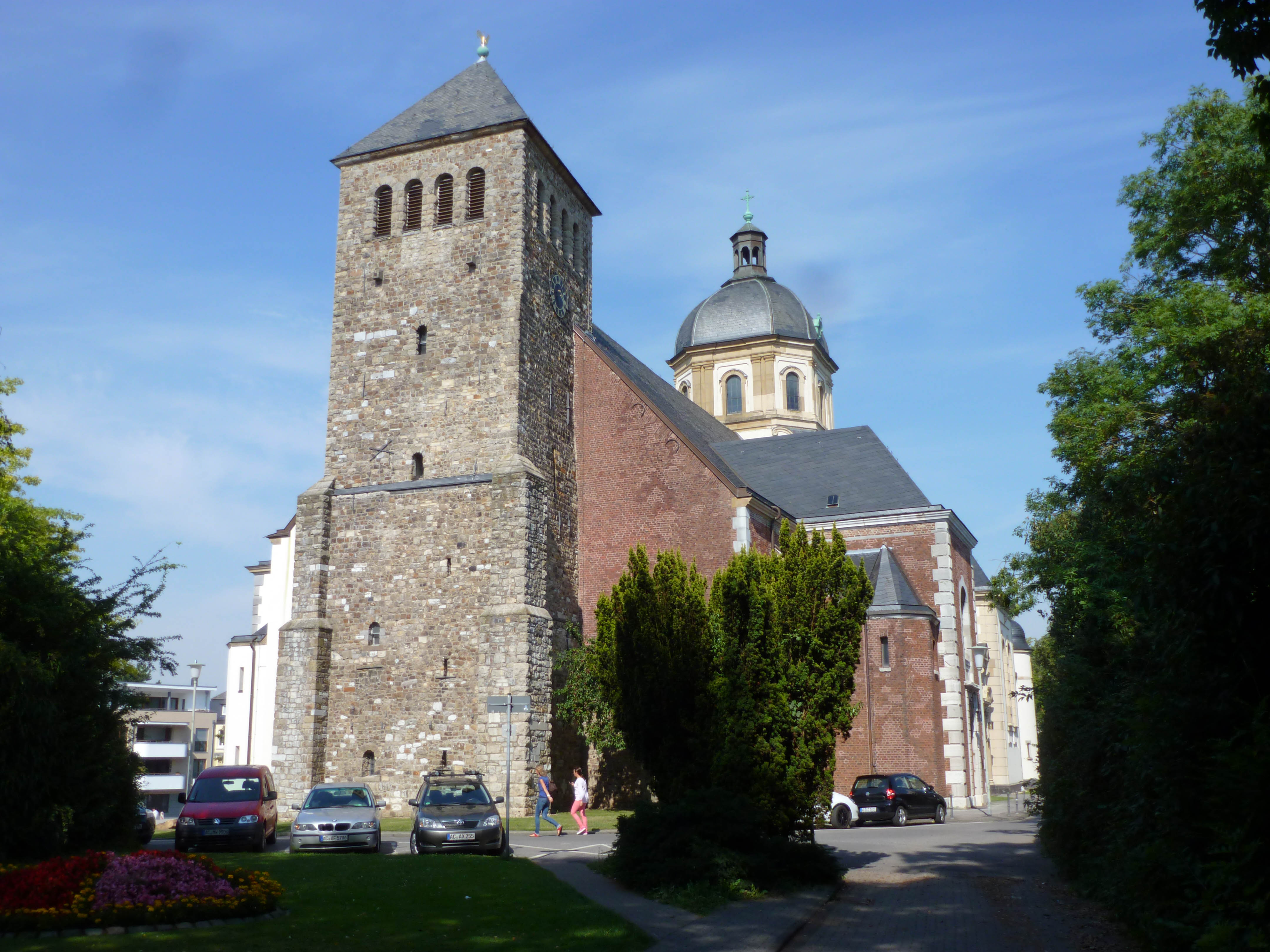 St Sebastian Church in Würselen, Germany